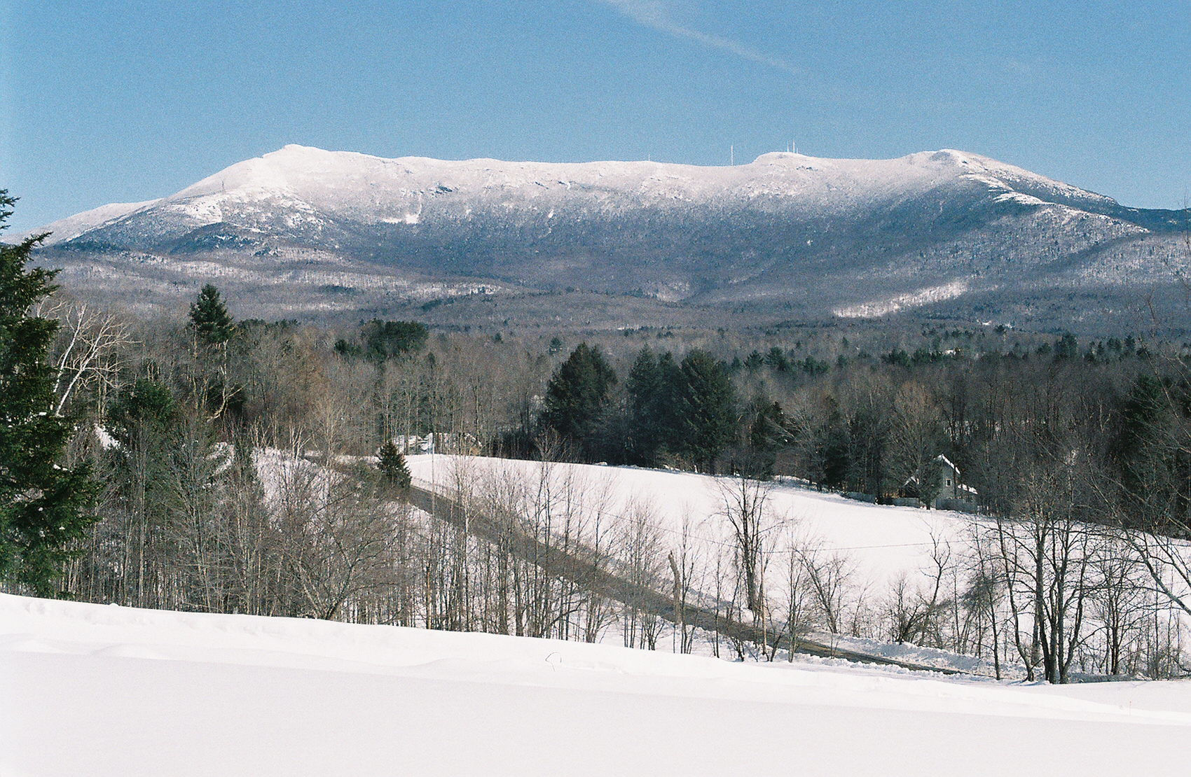 Photo of the Western slope of Mt. Mansfield from the front of my house in Underhill - K. Kemerait